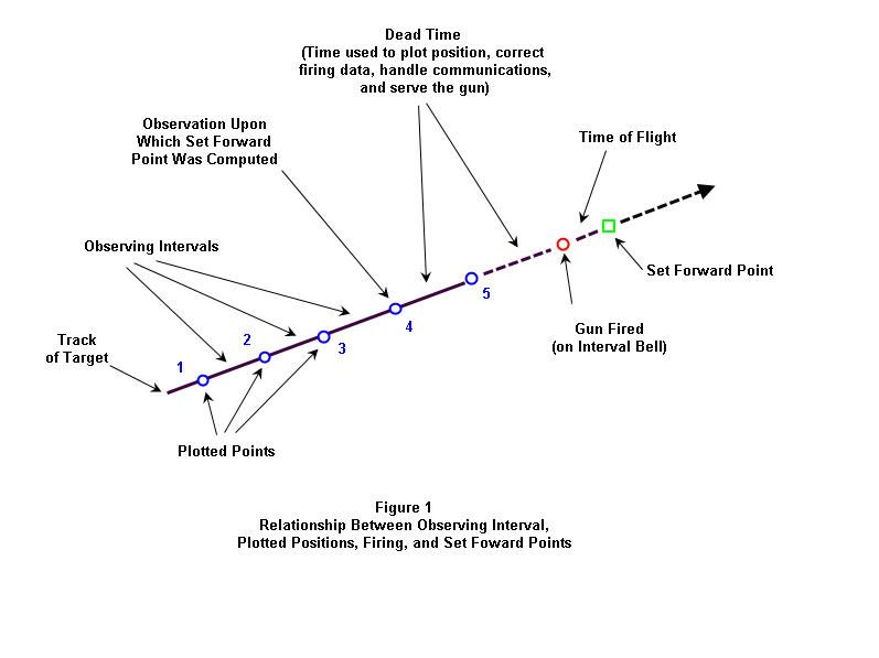 Chart is adapted from FM 4-15 Coast Artillery Field Manual-Seacoast Artillery Fire Control and Position Finding, U.S. War Department, Government Printing Office, Washington, 1940, pp. 14-17. to illustrate the sequence of steps involving target tracking, position-finding, and firing in the U.S. Coast Artillery.